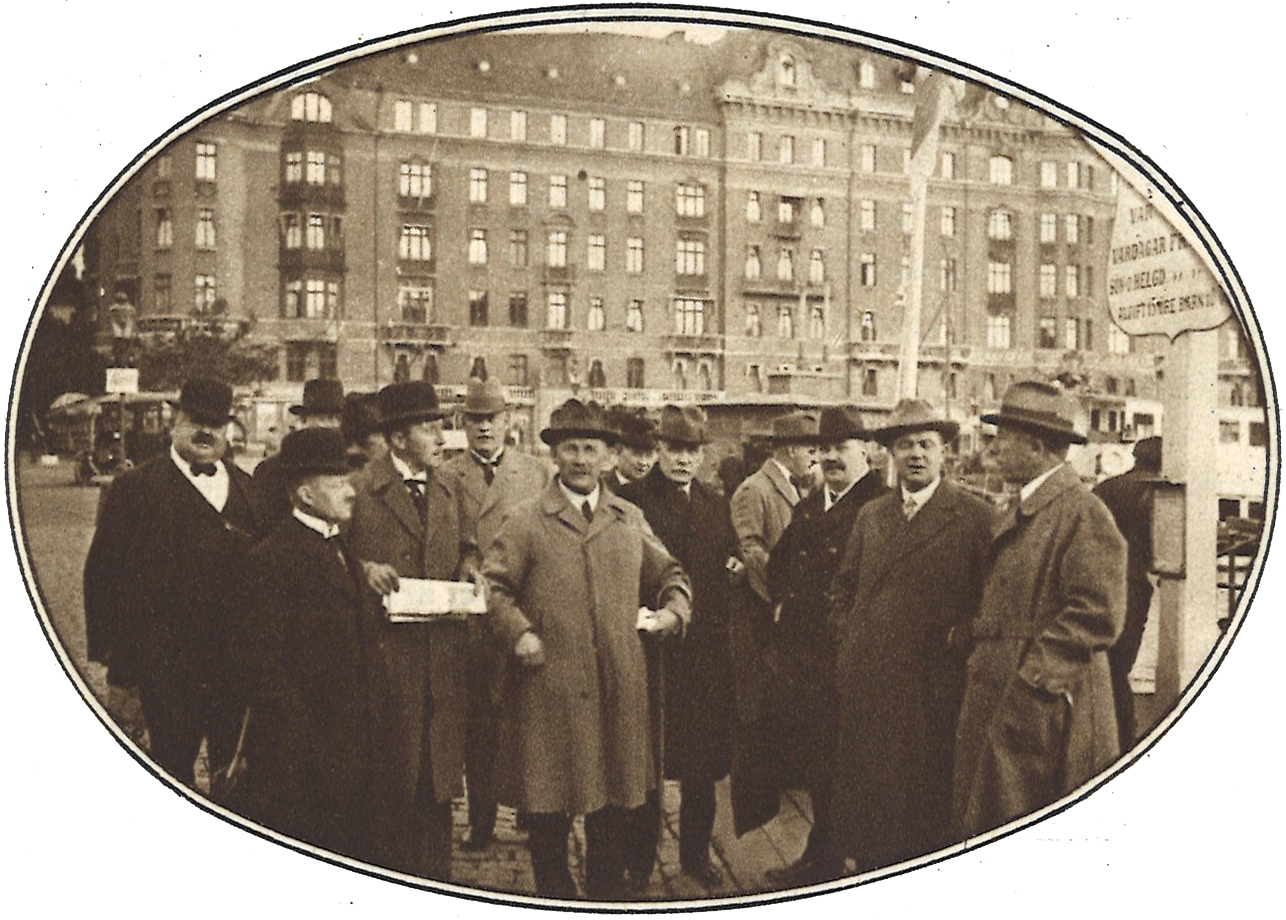 Group of Swedish "stadsfiskals" (public prosecutors) at a conference in Stockholm in 1925.